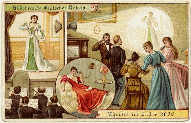 Theater in the year 2000. Germany, Hildebrand Factory chocolade.